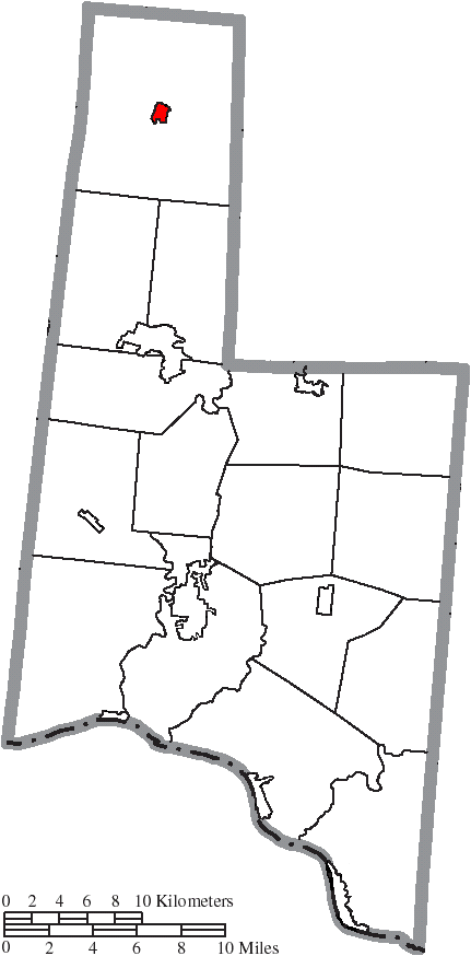 Map of the municipal and township boundaries of Brown County, Ohio, United States, as of the 2000 census, with the location of the village of Fayetteville highlighted. Township borders are shown only in unincorporated areas in order to differentiate incorporated and unincorporated areas more clearly.